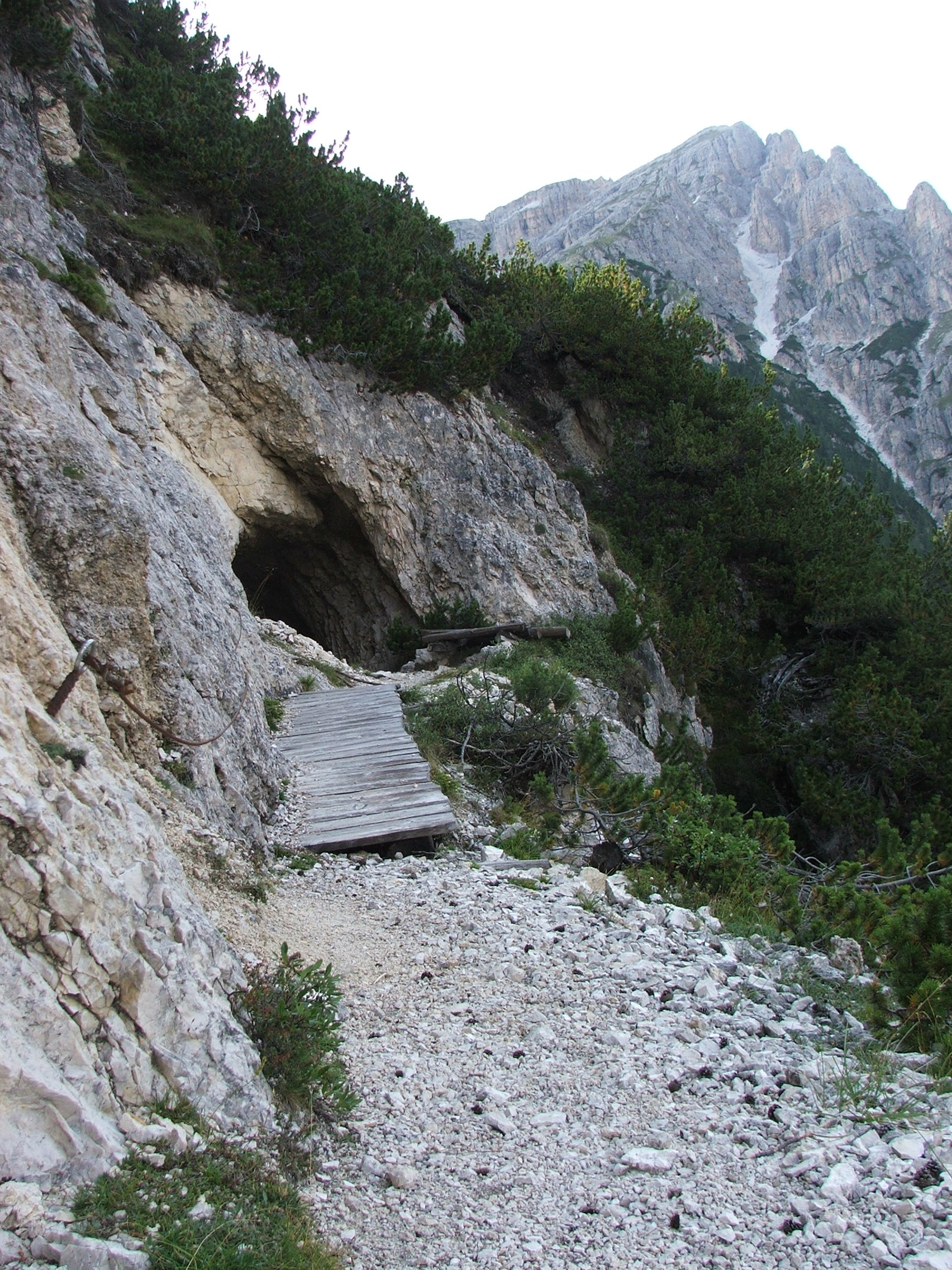 tunnel at the Strudelkopf in the mountains of Northern Italy